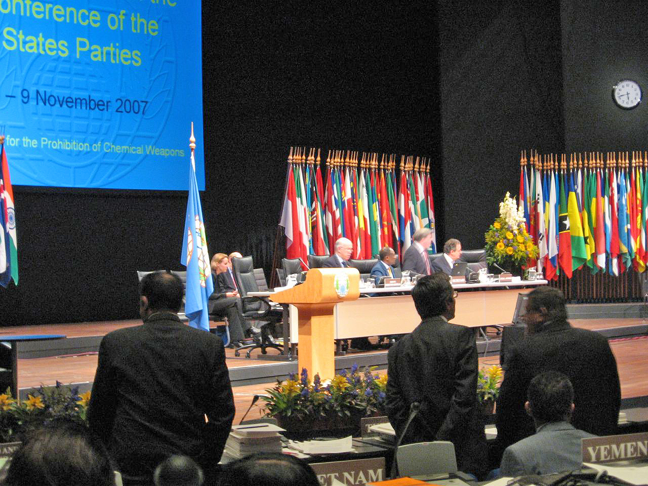 Conference of States Parties number 12 to the Chemical Weapons Convention, organized by the OPCW in The Hague 2007 at the World Forum Convention Center.